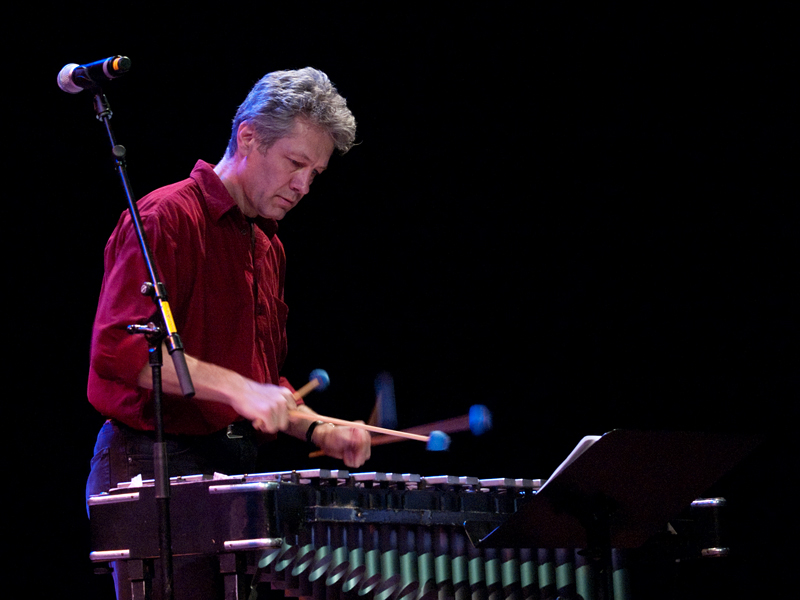 Stefan Bauer, moers festival 2006